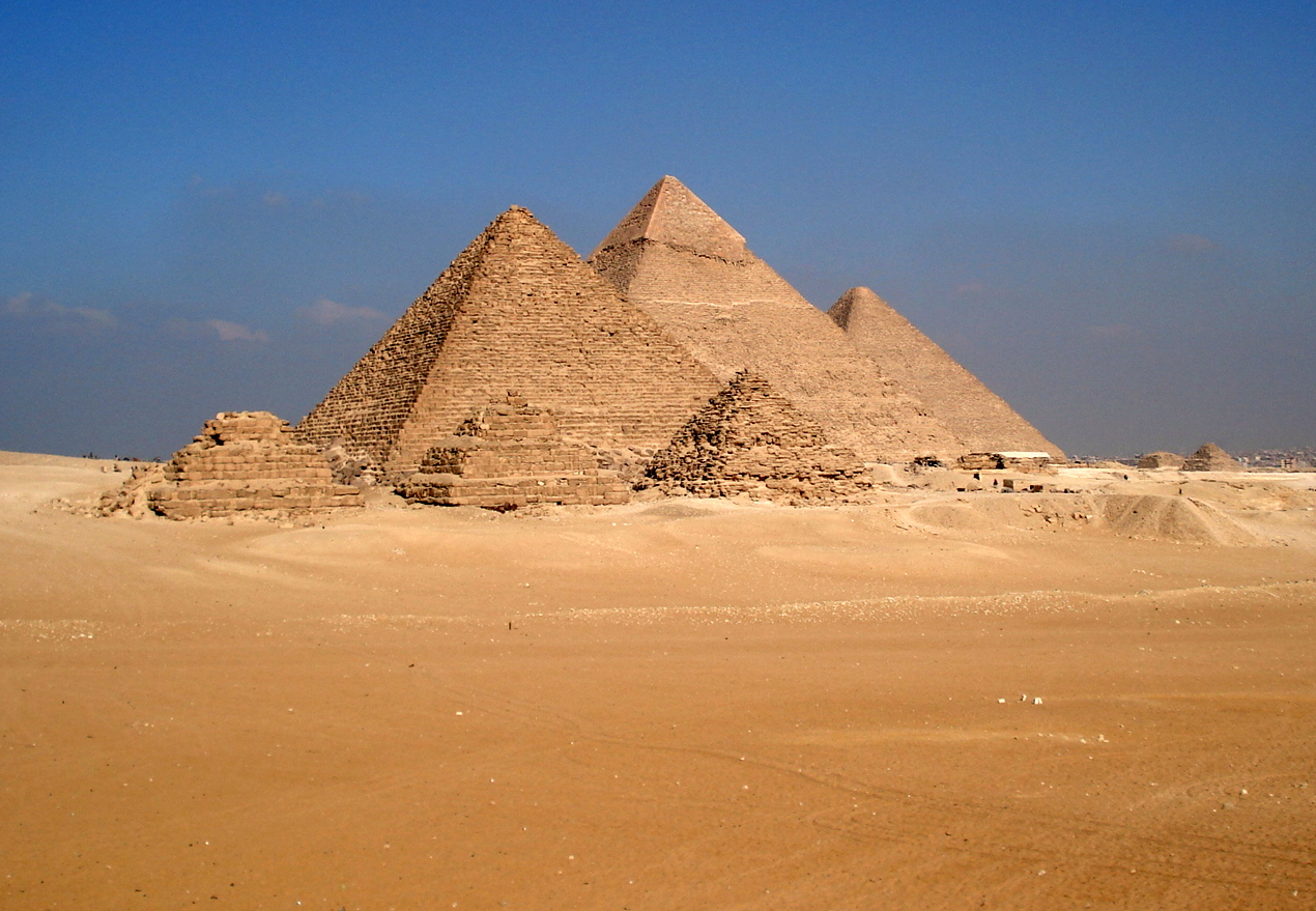 Giza pyramid complex